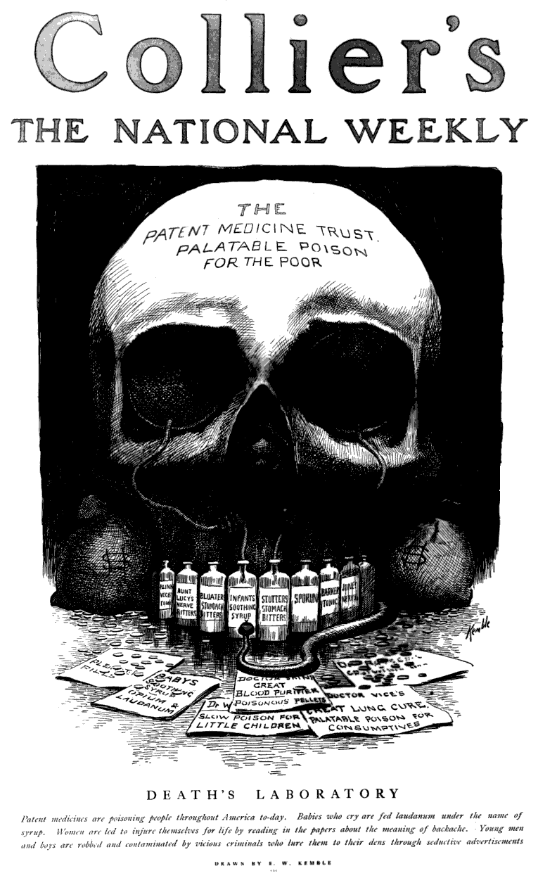 Cover of Collier's, June 3, 1905, featuring E. W. Kemble's illustration for "Death's Laboratory", an exposé of the patent medicine fraud.